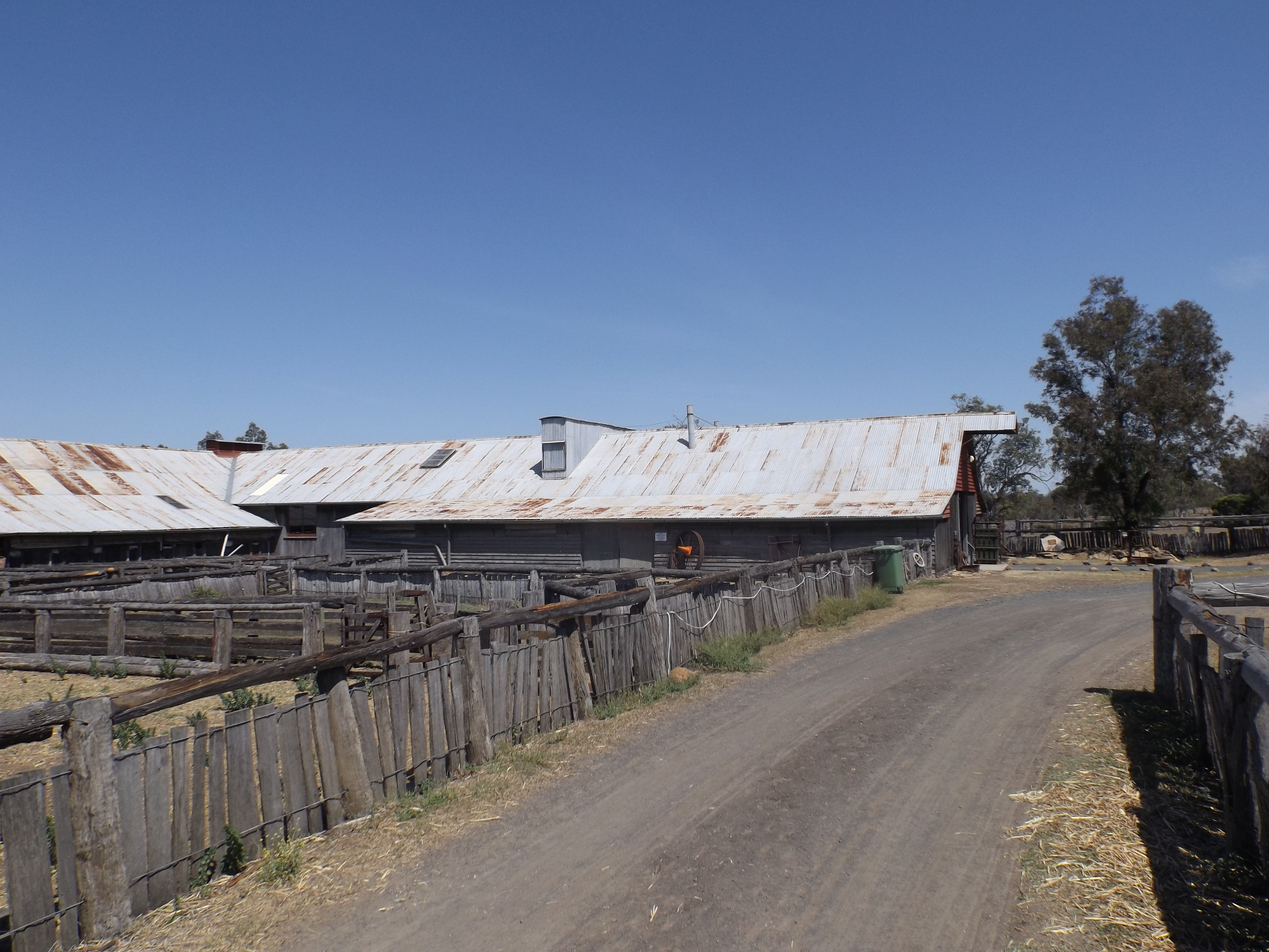 Photo of Jondaryn Woolshed at Jondaryan, Queensland, Australia.